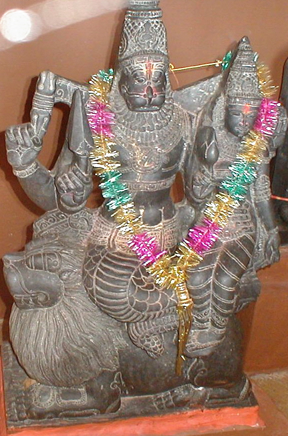 Surendrapuri Temple's Navagraha Temples, Rahu with Karali